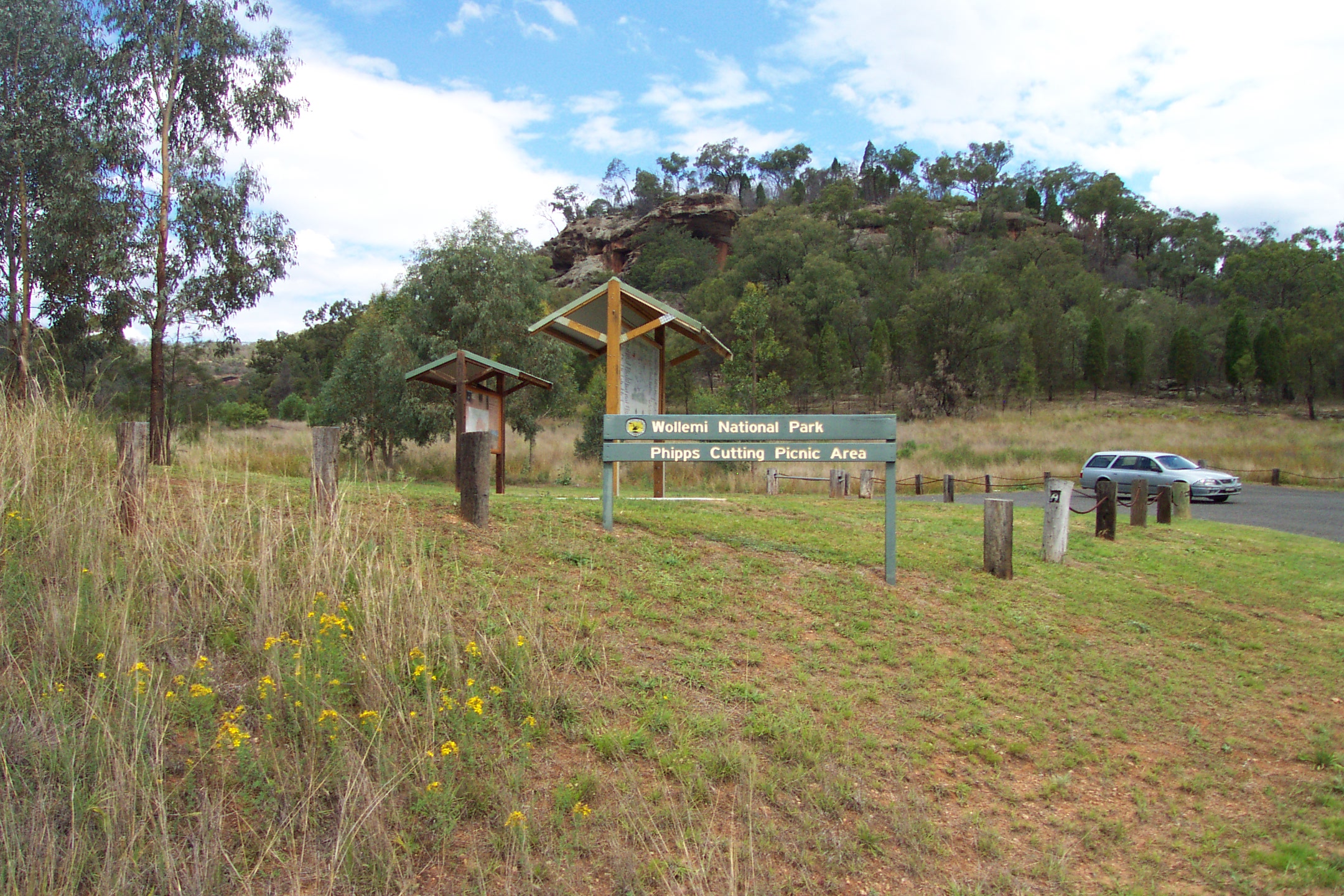 Phipps Cutting Picnic Area on Bylong Valley Way at edge of Wollemi National Park.